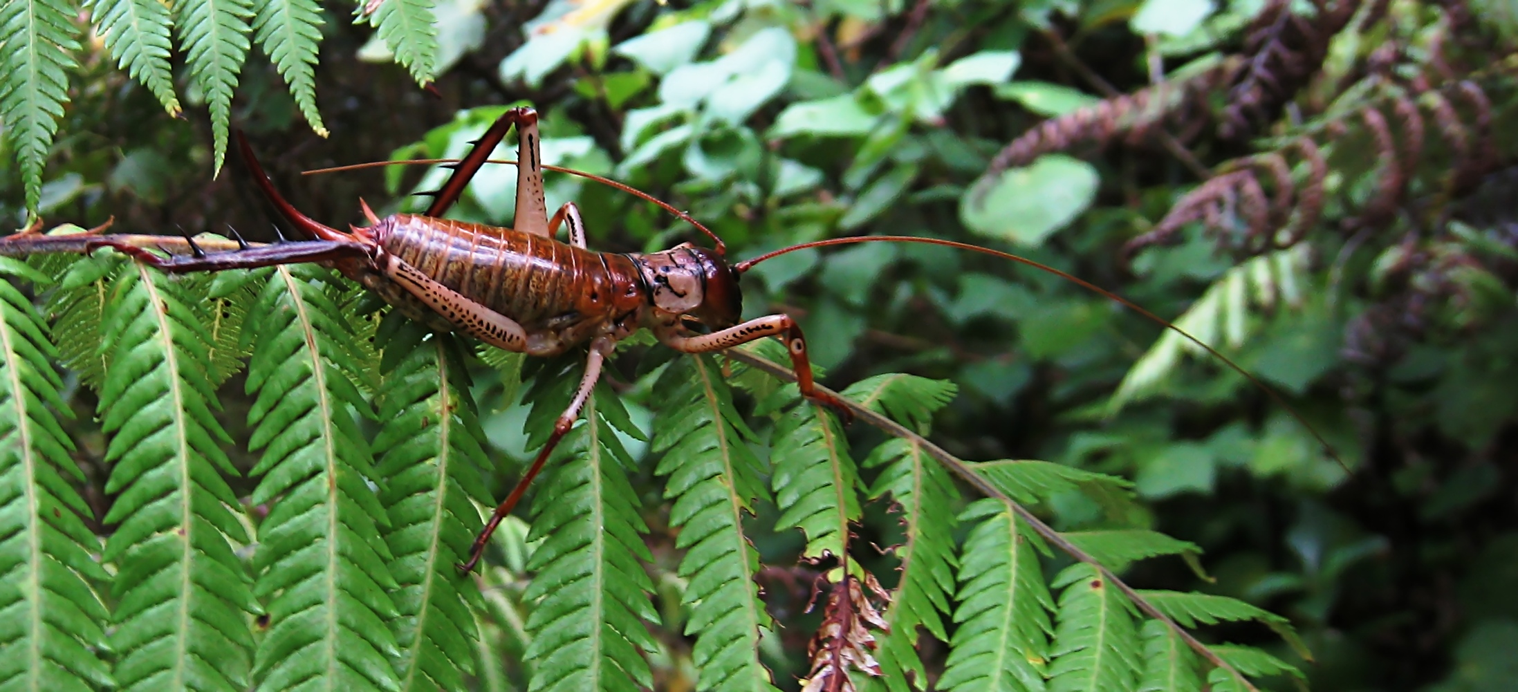 Female Auckland tree weta (Hemideina thoracica) on tree fern, at Piha, near Auckland, New Zealand. It was about 7 cm long, "nose" to "tail". (The "tail" is actually an ovipositor.)